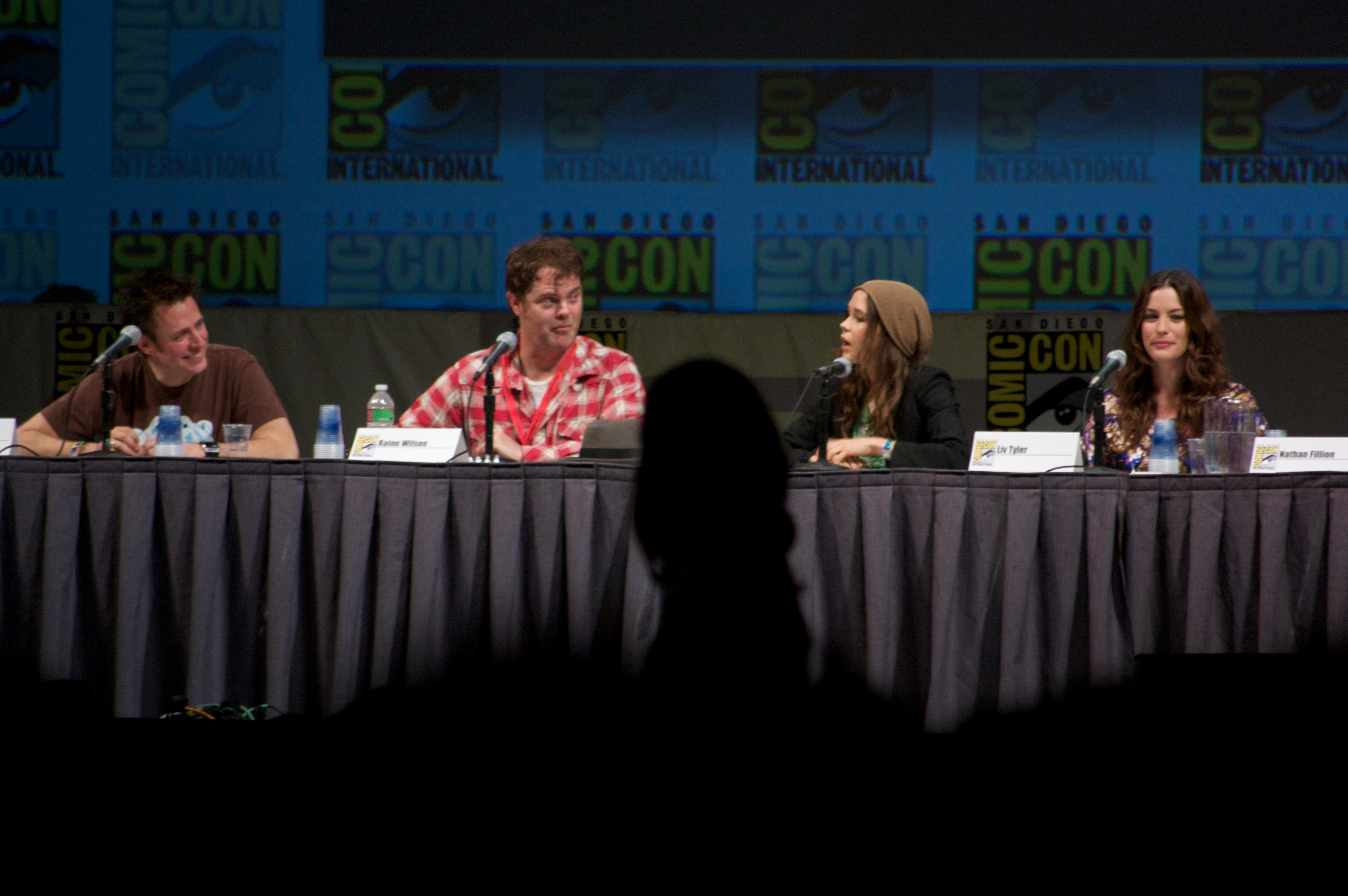 "Super" Panel. Director James Gunn and actors Rainn Wilson, Ellen Page and Liv Tyler at San Diego 2010 Comic-Con International.